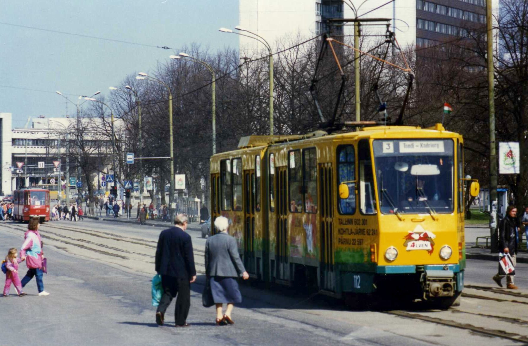 Tatra KT4 nr 112 in Tallinn on Route 3, Tondi - Kadriorg, in 4Even or Alven overall advertising livery. In the background, Tatra 123 in red. Fleet nr 112 was a KT4SU which was new in 1988 and withdrawn somewhat prematurely in 1998. 112 is flying Hungarian and Estonian flags in observance of the visit of the President of Hungary.